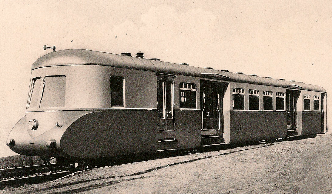 NMBS/SNCB Autorail Forges et Fonderies d'Haine-Saint-Pierre